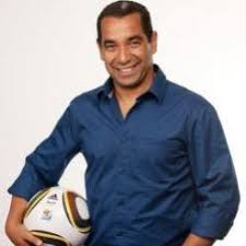 Futebolista